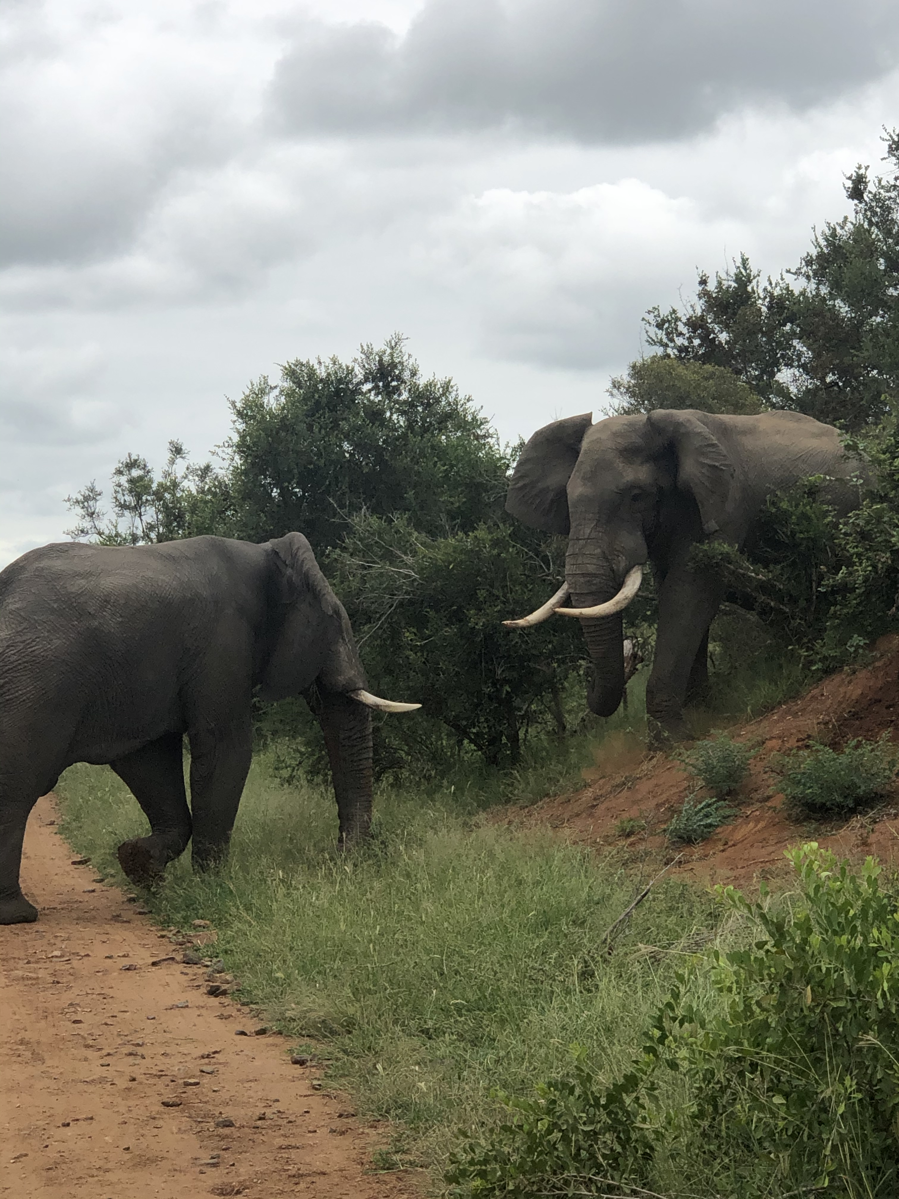 This is an image with the theme "Africa on the Move or Transport" from: South Africa